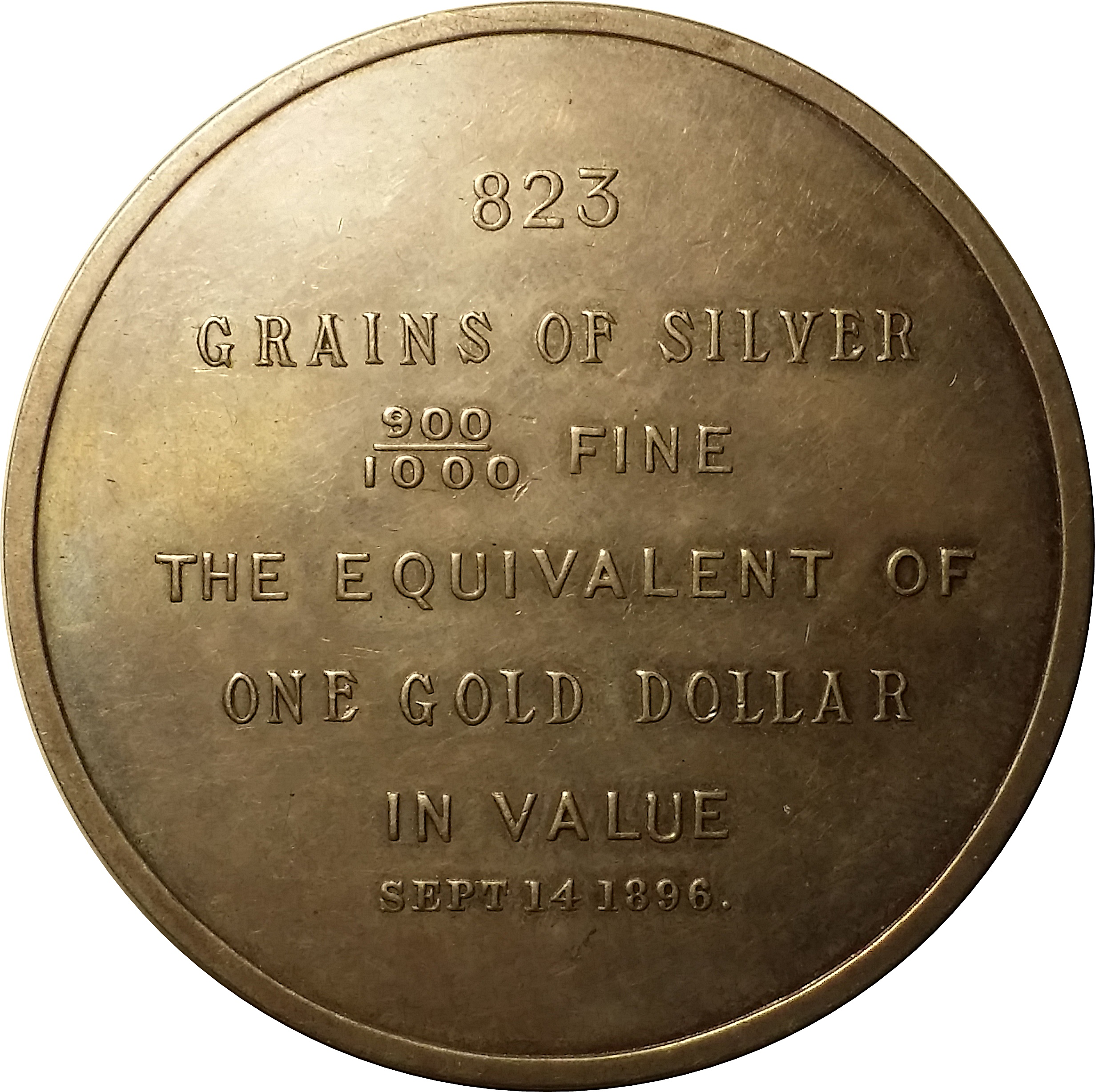 Bryan Money comparative type produced by Tiffany & Co. SCH-3 Reverse